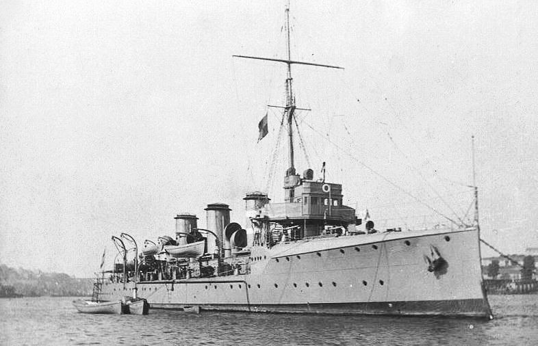 Photograph of British cruiser HMS Patrol.